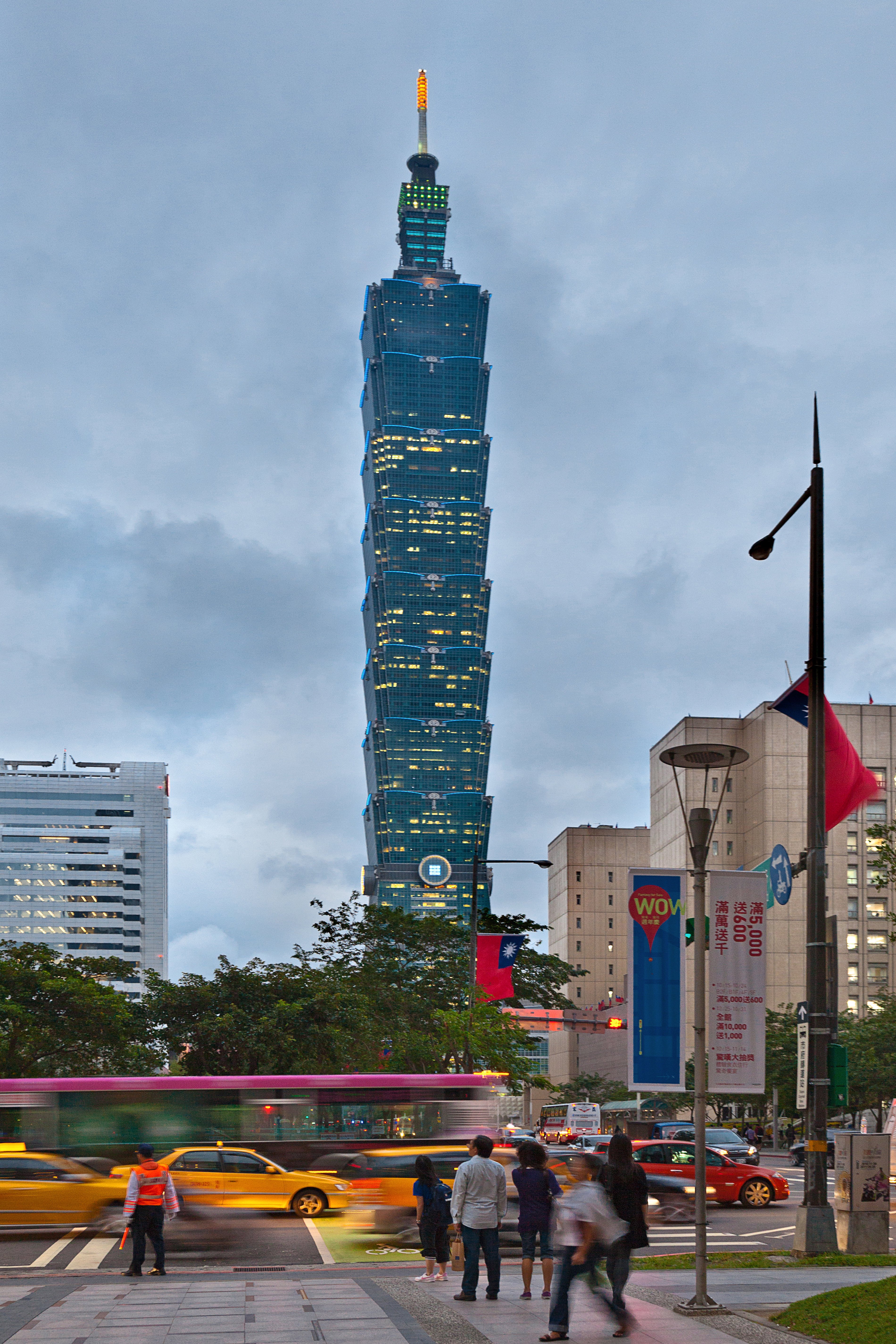 Taipei 101 and flags of the Republic of China.